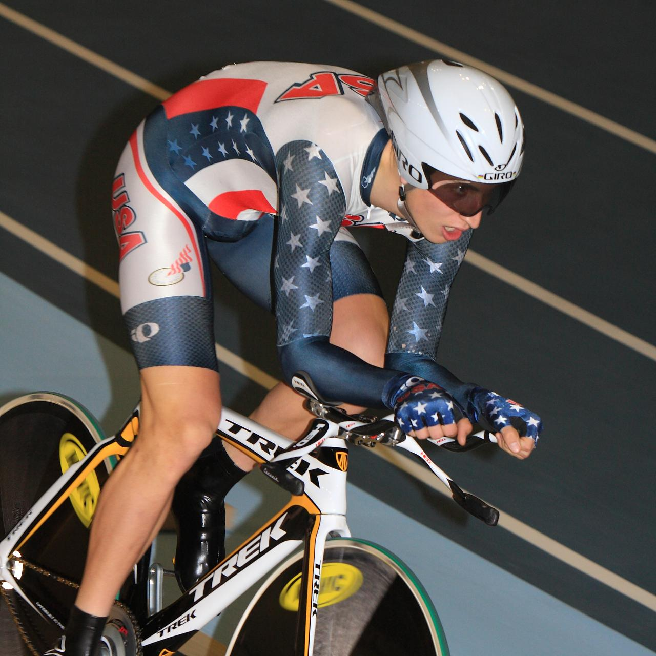 Taylor Phinney in the Individual Pursuit at the 2010 UCI Track Cycling World Championship